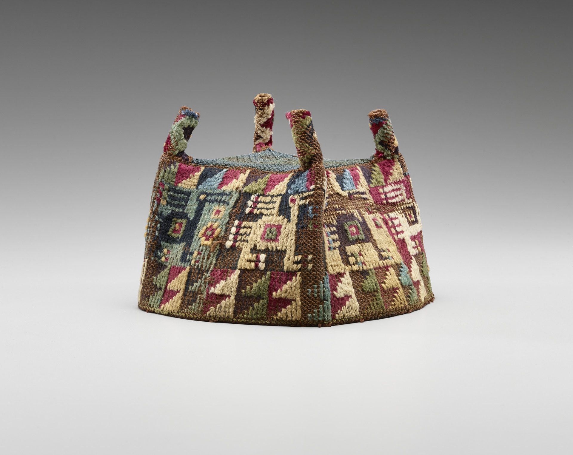 Wool and cotton cap, square-knotted network with wool pile. 8.3x50.9 cm. Close-fitting, four-cornered caps such as this one were worn by Huari and Tihuanaco elite males in life and were interred with the dead. Upon a netted cotton base, the llama or alpaca wool pile in more than eight colors is woven into repeating designs of long-necked birds and geometric shapes.